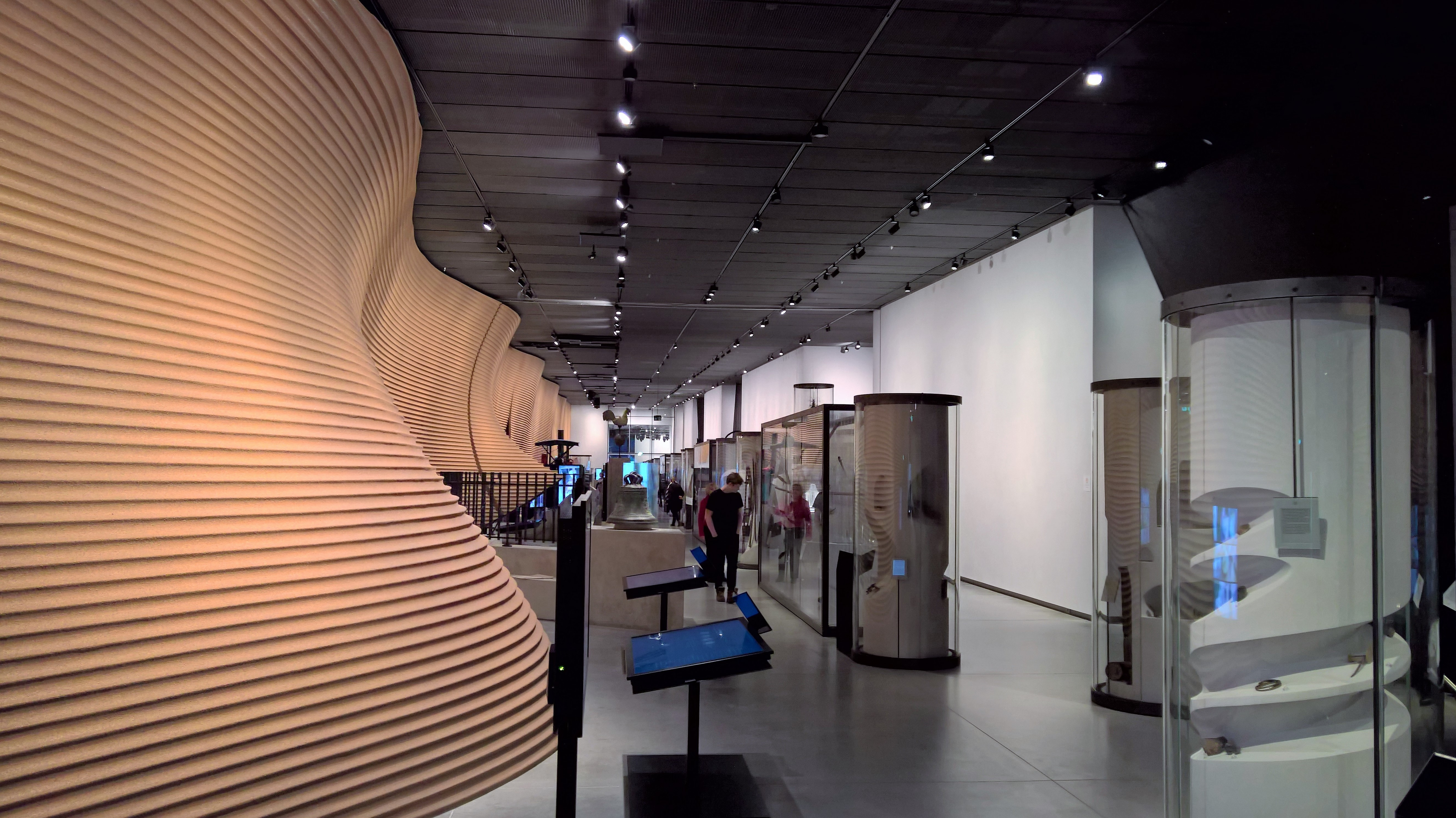 Estonian National Museum, main hall, interior.